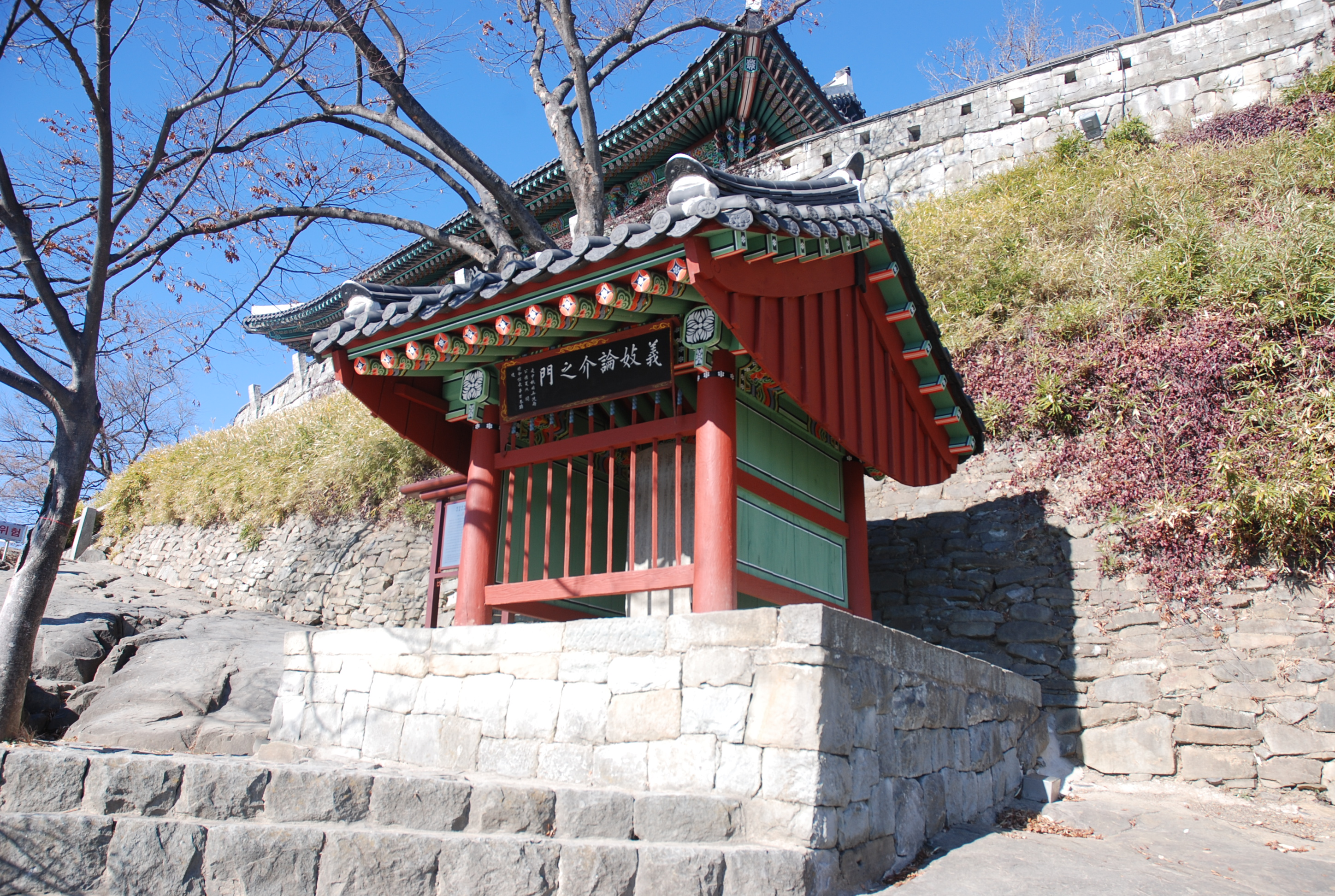 The rock of loyalty monument bulit for the Nongae